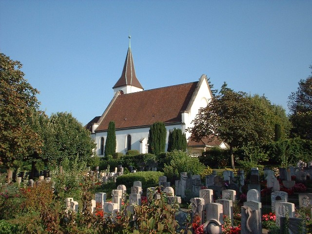 Old Catholic church St. Leodegar in Möhlin